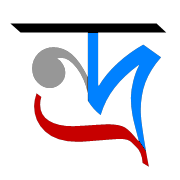 Bengali conjunct consonant ndr.